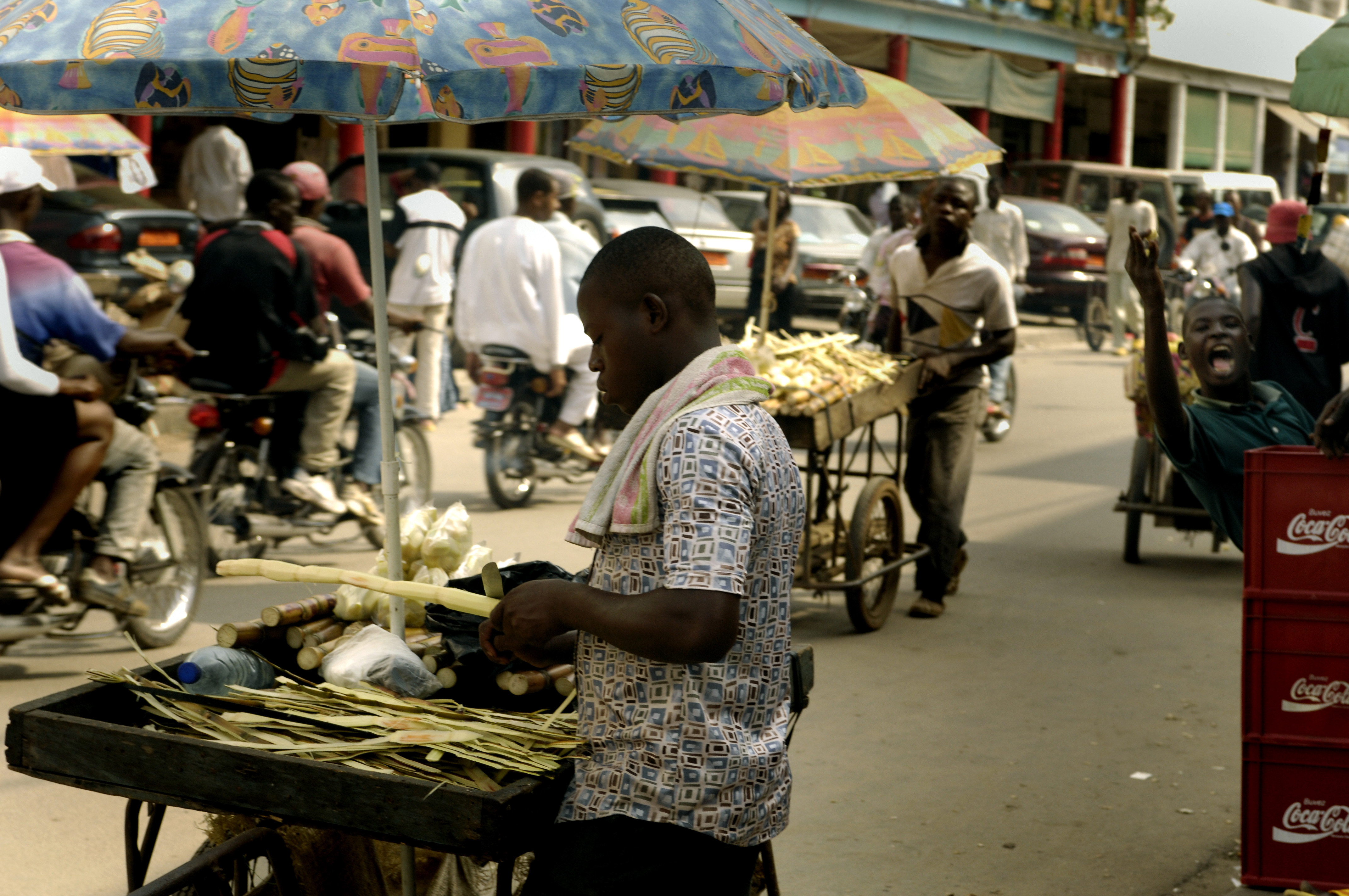 A Douala street vendor prepares his goods in hopes of making a sale Nov 19, 2006 in , Cameroon, Africa. Vendors often sell many items in small quantities so more customers can afford to purchase them.